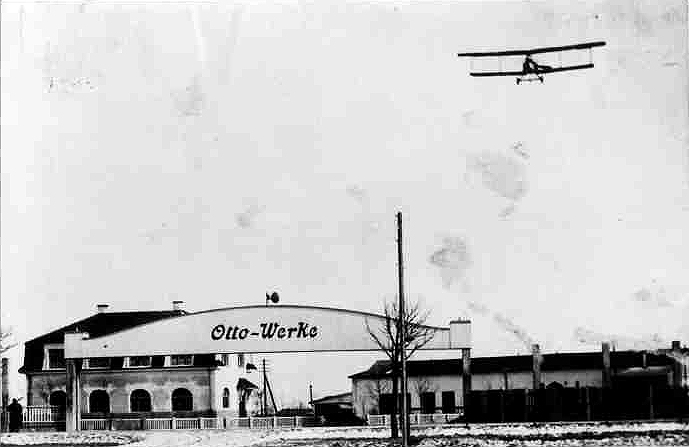 The picture shows the Gustav Otto Flugmaschinenwerke ("Gustav Otto Aircraft Machine Works") in the year 1911. It was made in Munich, Germany.